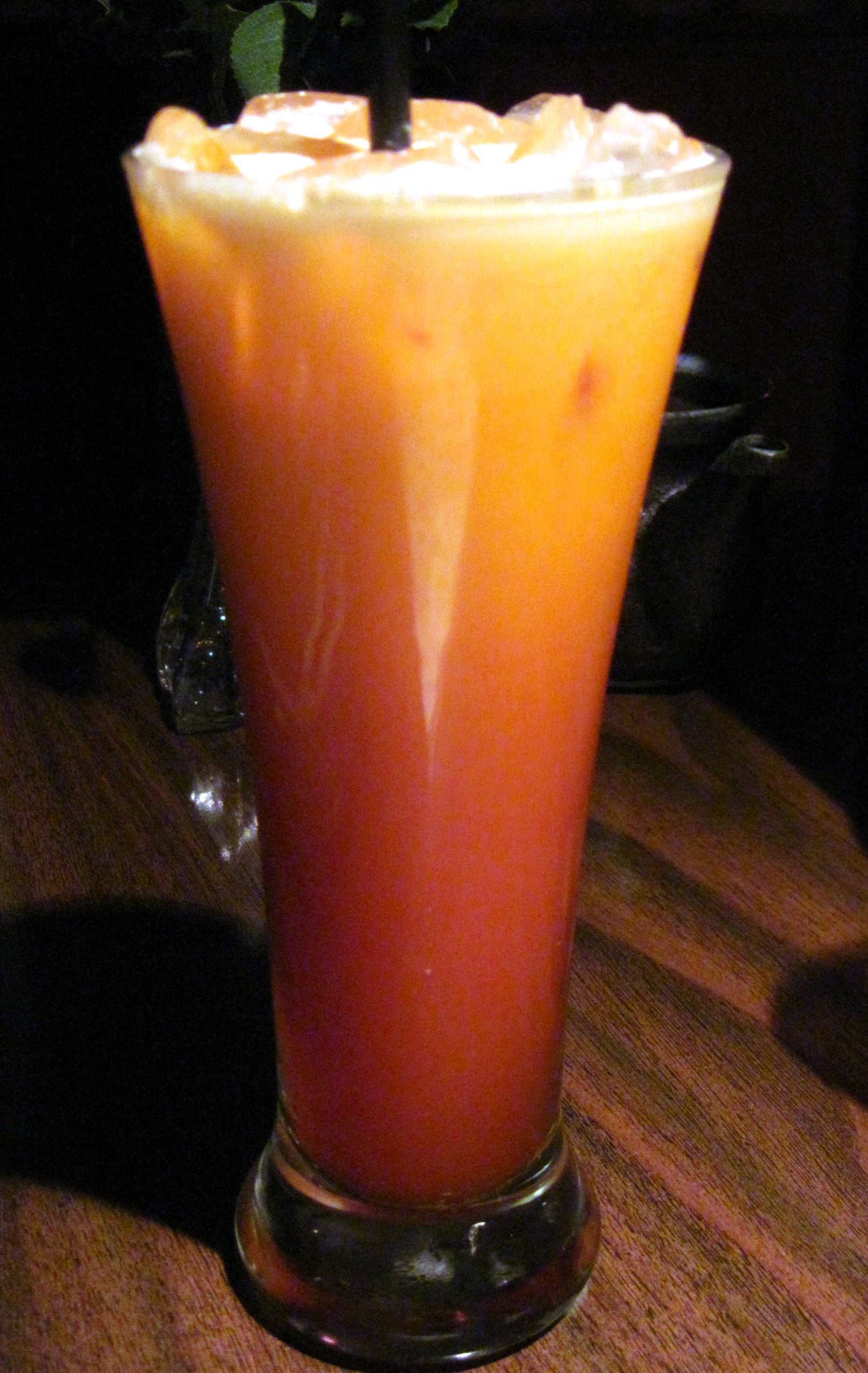 Thai iced tea, served in a typical tall glass to better show off the gradient created by pouring condensed and/or evaporated milk into the top of the glass of tea